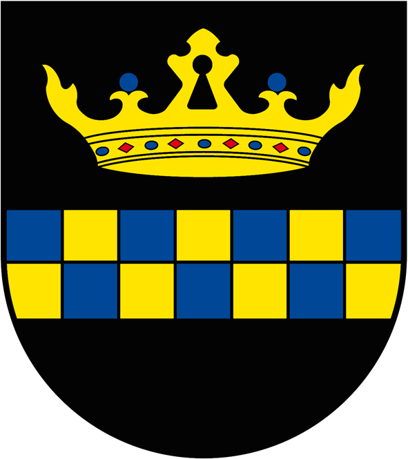 Coat of arms of Sohren